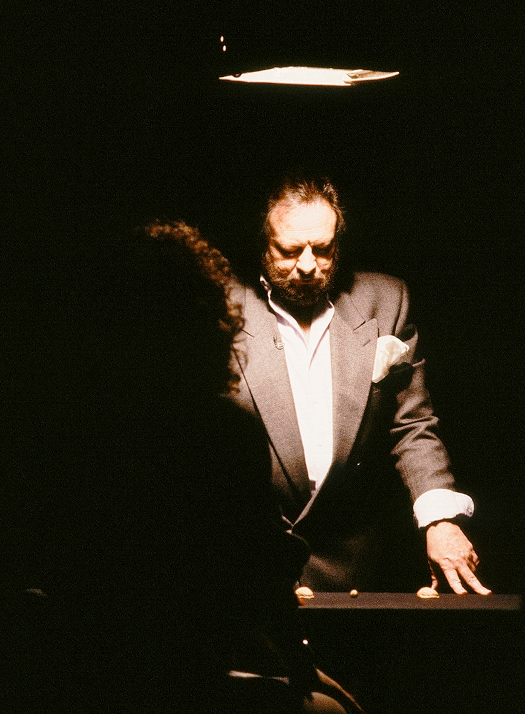 Ricky Jay appearing on the Channel 4 TV show The Secret Cabaret